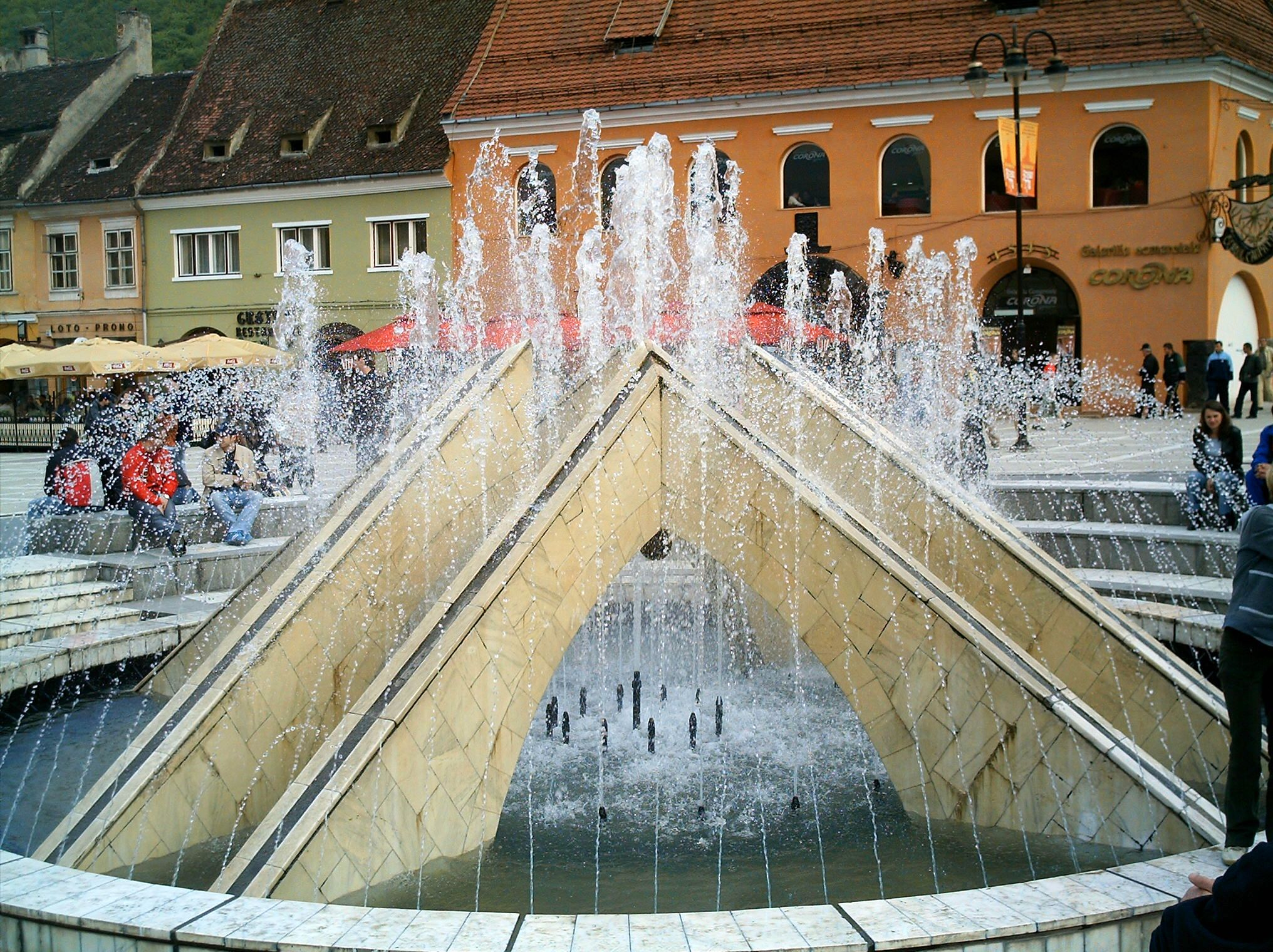 Fountain in Braşov (Kronstadt), RomaniaRomână: Fântână în Piaţa Sfatului din Braşov, România